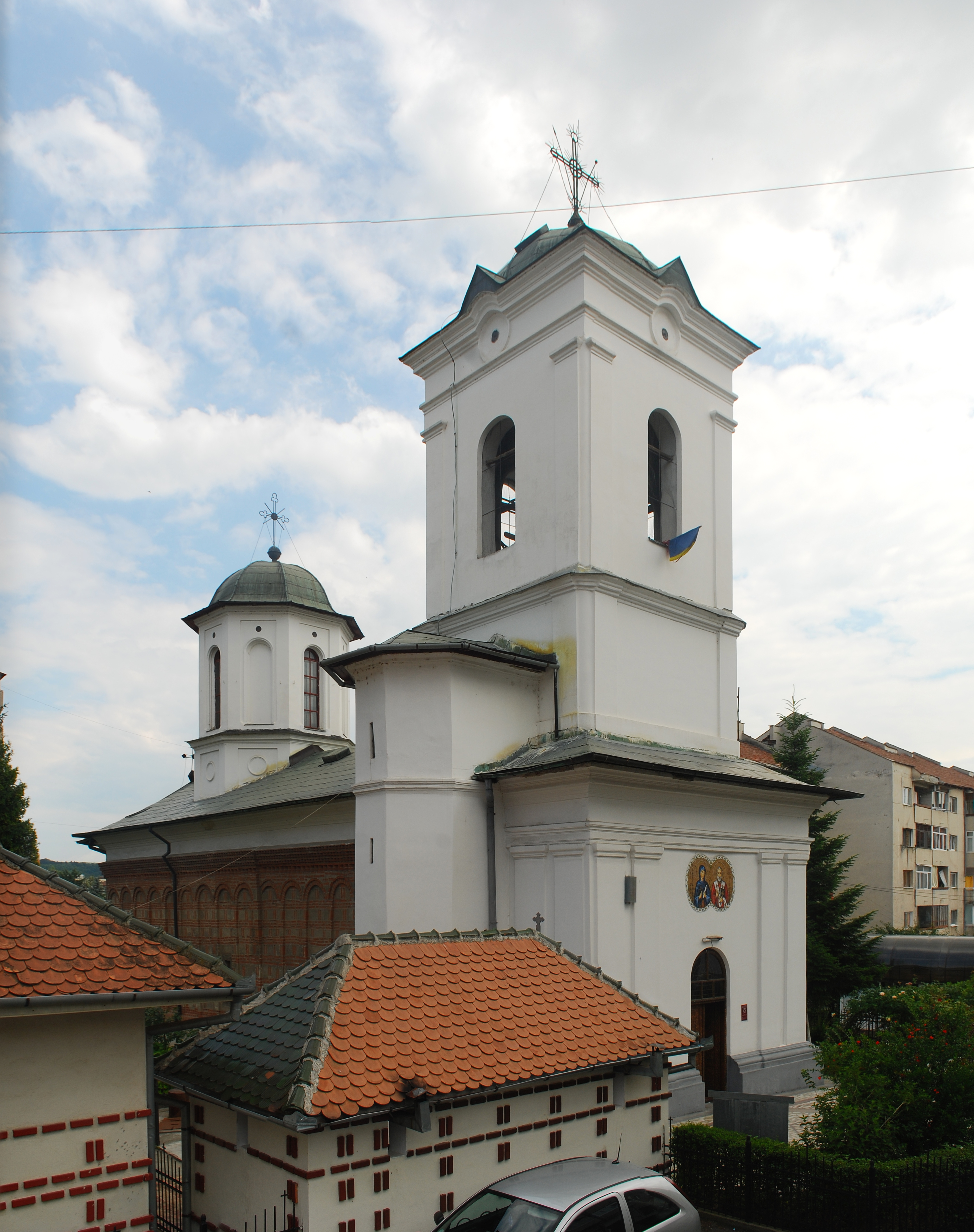 Saint Paraskeva's church in Râmnicu Vâlcea, RomaniaRomână: Biserica „Cuvioasa Paraschiva” din Râmnicu Vâlcea, România